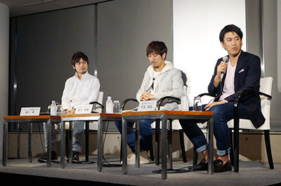 鈴木善貴（トークイベントにて：本人中央）